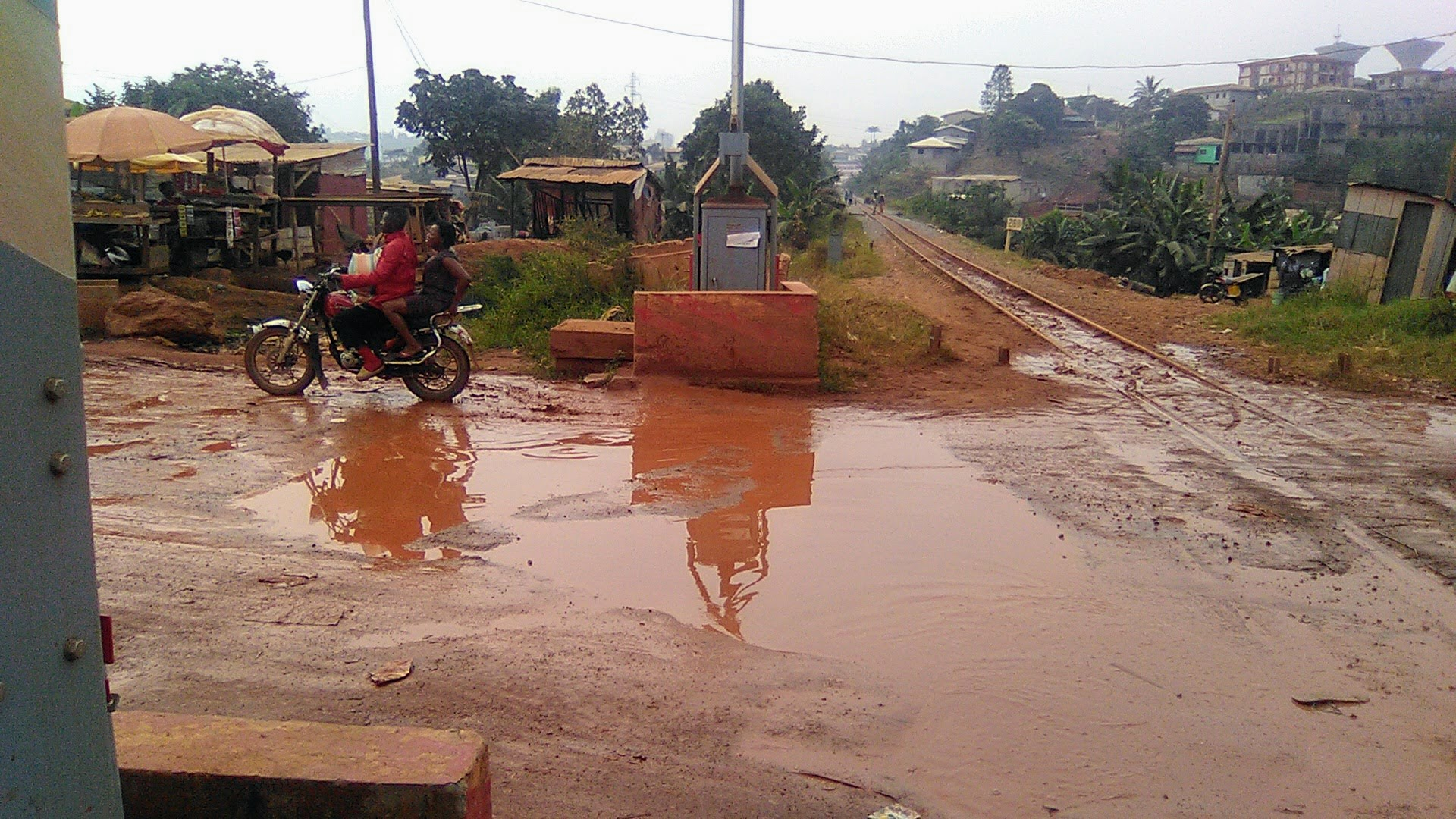 This is an image with the theme "Africa on the Move or Transport" from: Cameroon